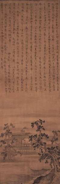 Tao Hongjing Listening to the Pines, Yamanashi Prefectural Museum, Fuefuki, Yamanashi, Japan